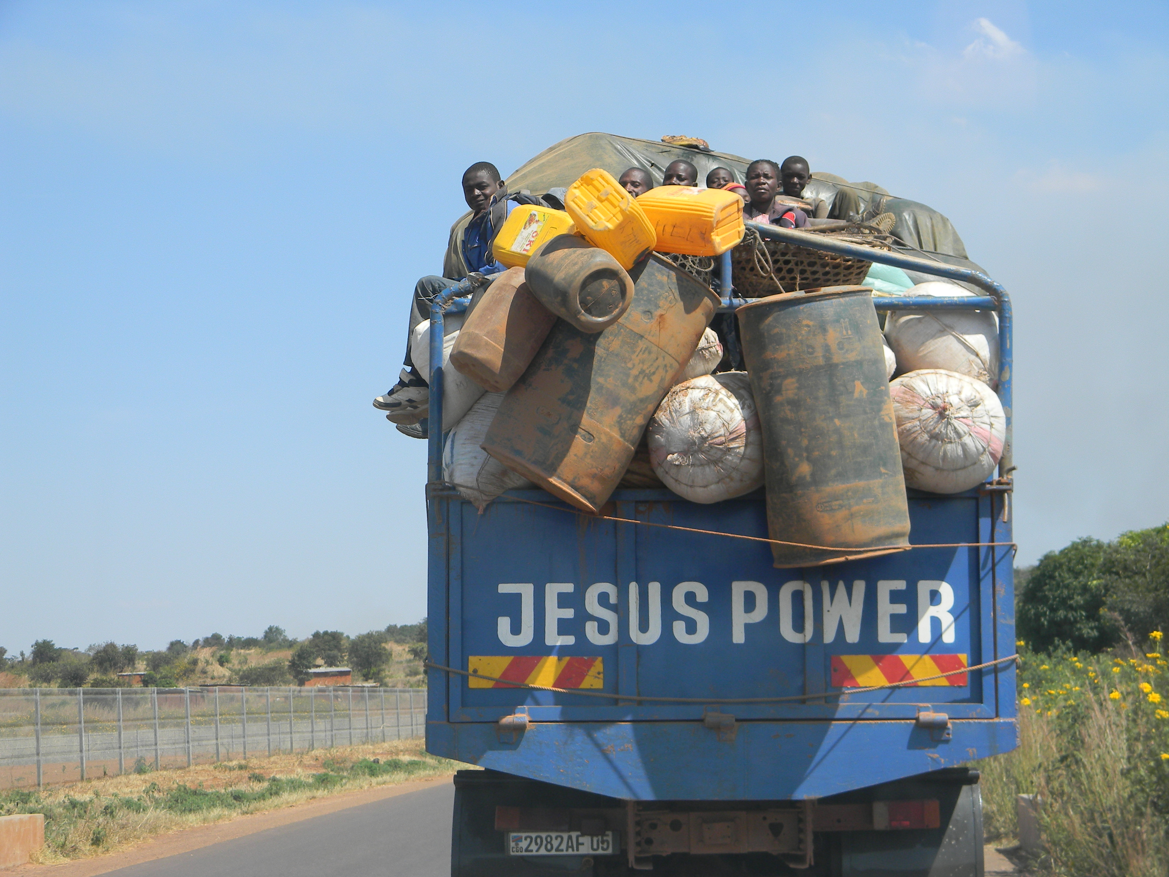 ... Jesus Christ leads the carriage.....in Lumbumbashi R.D.Congo. This is an image with the theme "Africa on the Move or Transport" from: Democratic Republic of the Congo